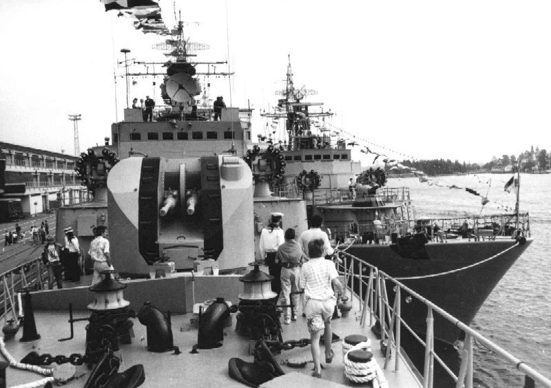 GDR navy ship "Rostock" (left) moored alongside GDR navy ship "Wismar" (right) in Helsinki harbor during an official visit.